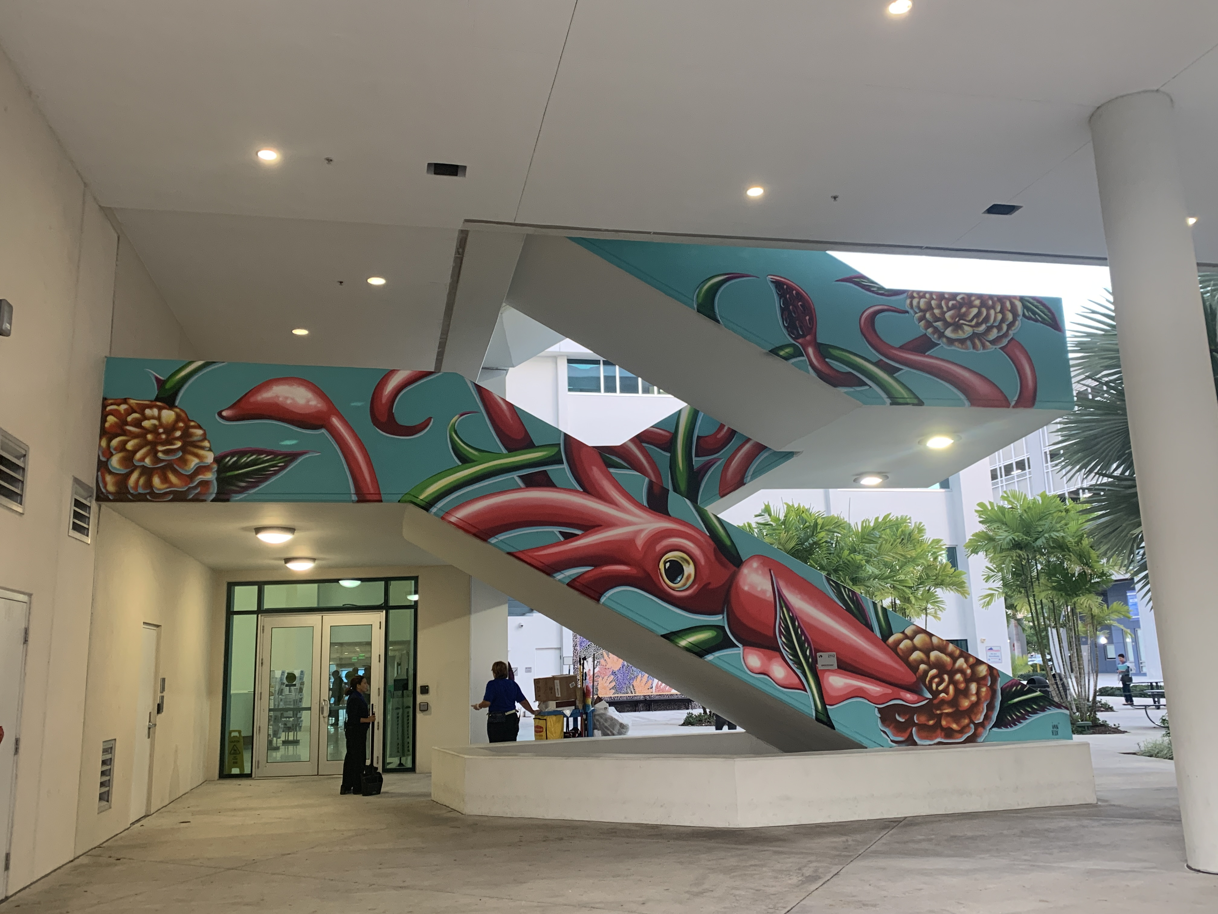 More mural art